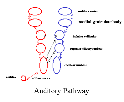 I created this image using Microsoft PowerPoint